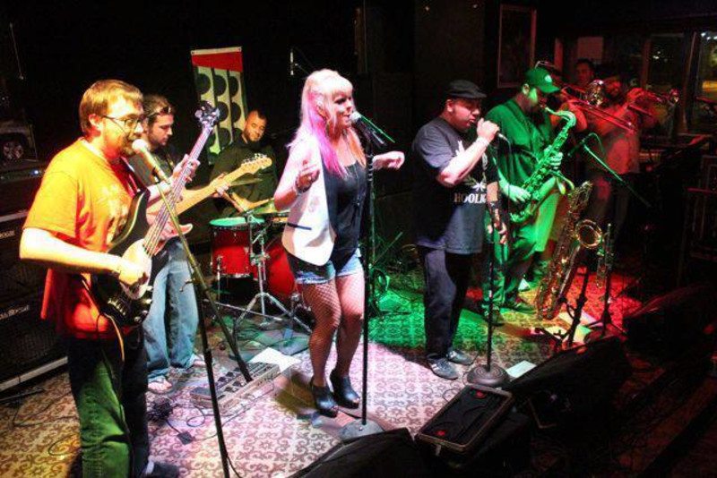 Rude King at Fistful of Ska 2013 in Des Moines, Iowa.